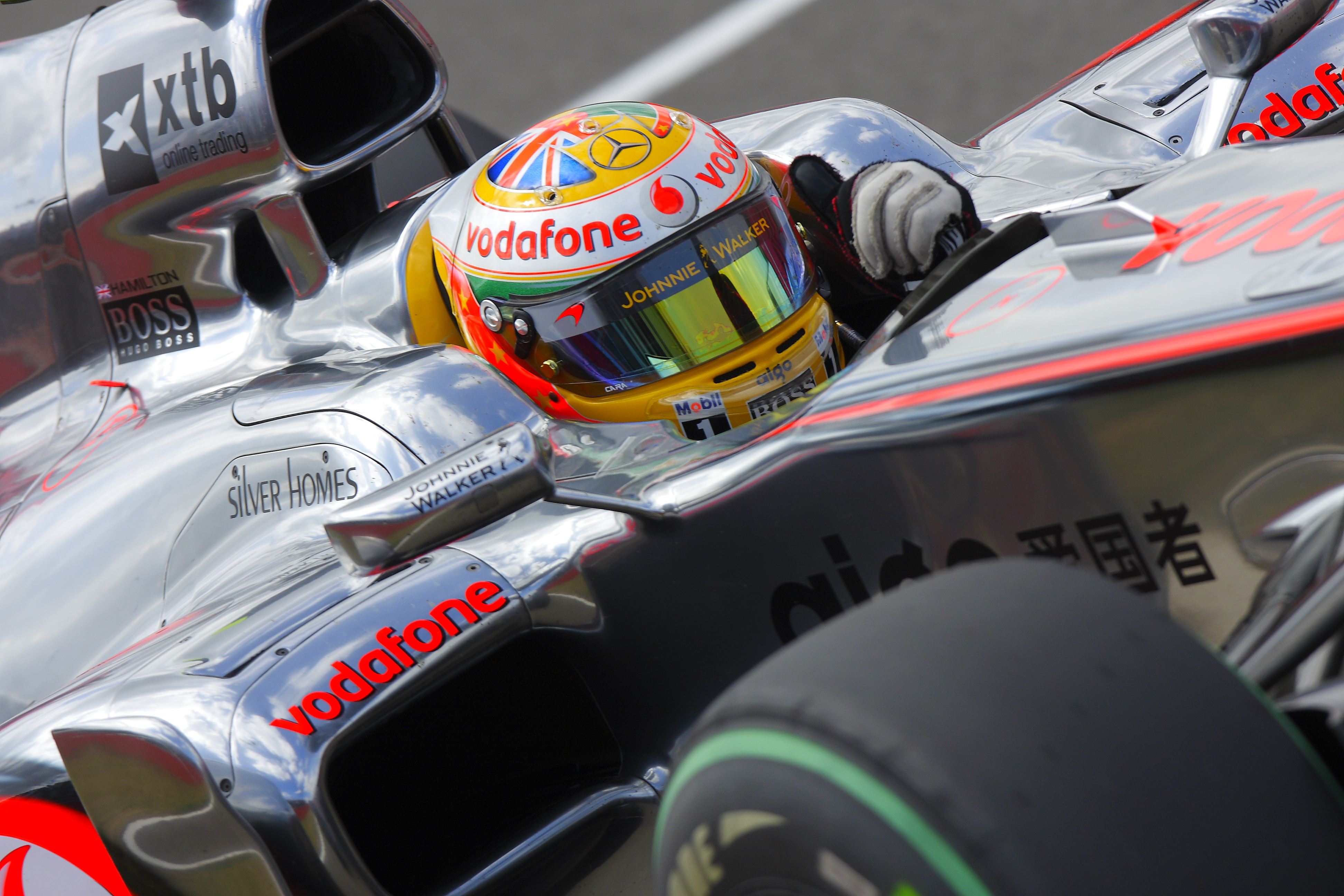 Lewis Hamilton driving for McLaren at the 2010 British Grand Prix. Photographer: Andrew Hoskins.